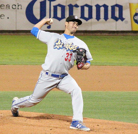 Mitch White pitching for the Rancho Cucamonga Quakes